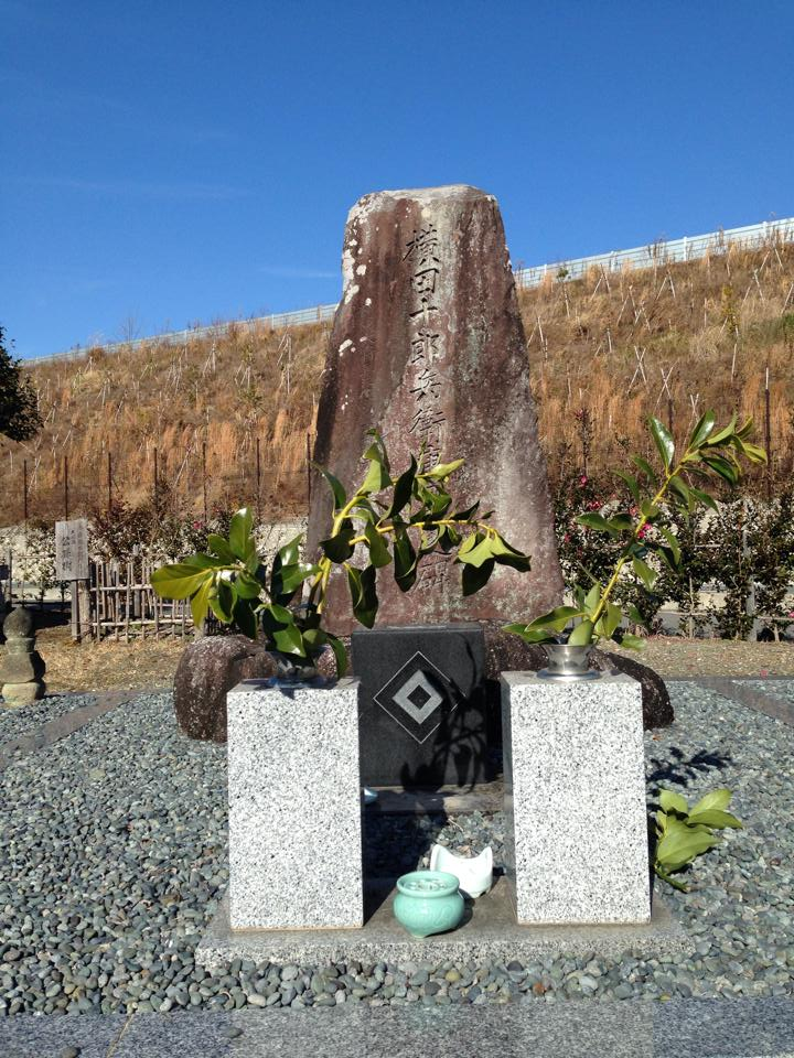 Cenotaph of Yokota Yasukage died in Nagashino battle